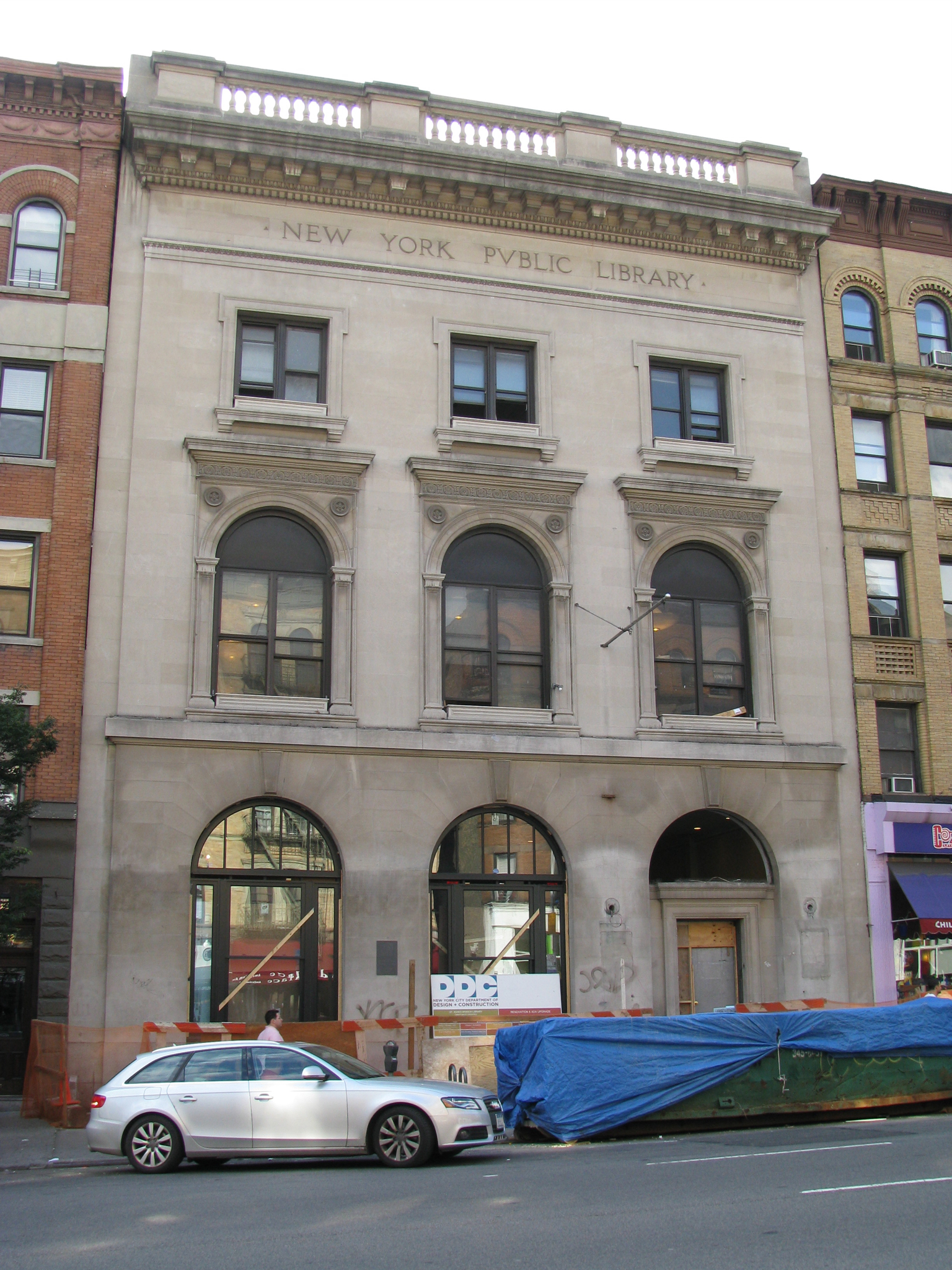 The Saint Agnes Branch of the New York Public Library, funded by Andrew Carnegie undergoing extensive renovations when this photograph was taken.